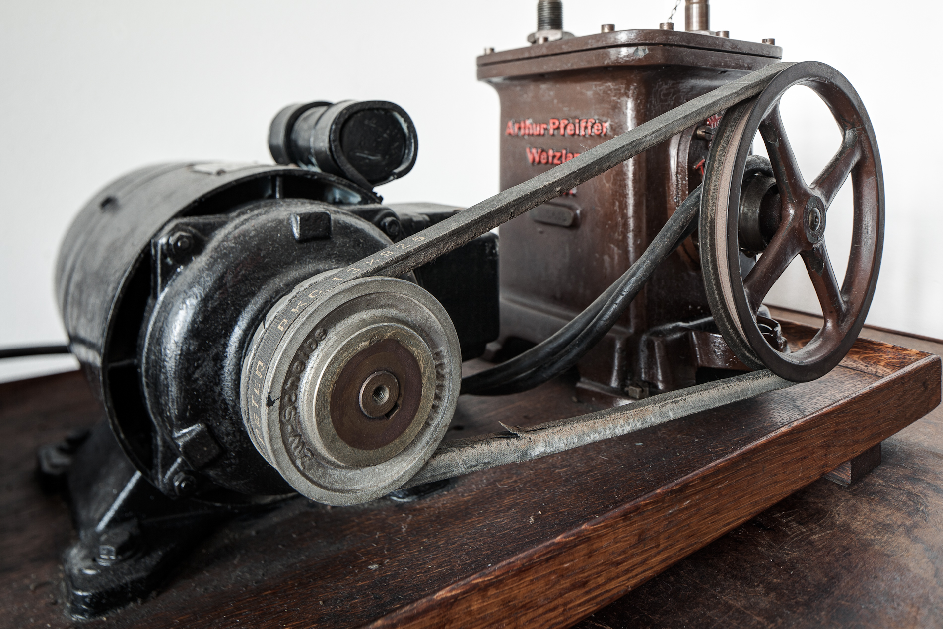 Oil air pump (?), historic, unknown age.